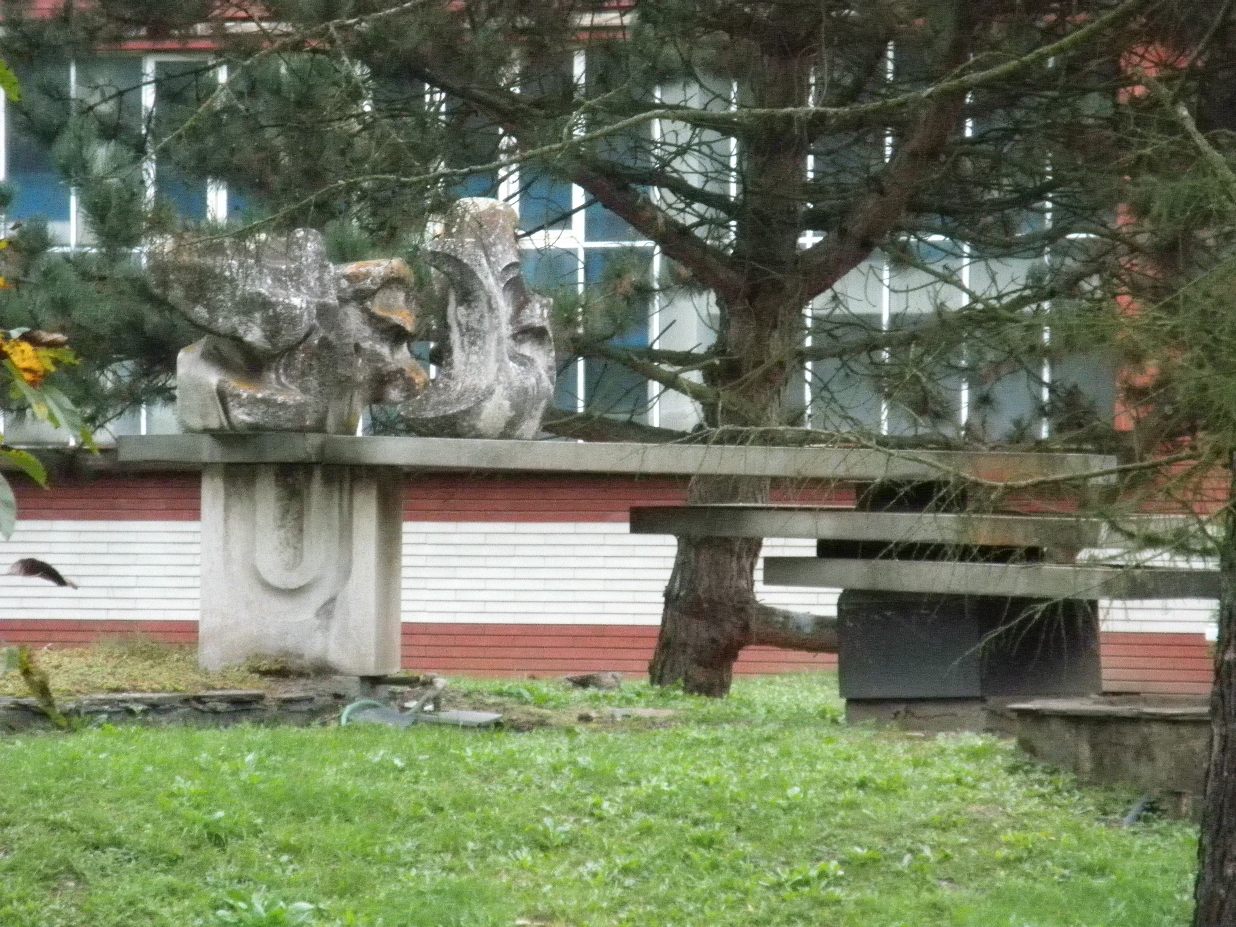 Statue Voda–život (Water-Life) in front of water treatment plant in Olomouci - Černovír from 1970-1973. Sculture was made by Karel Hořínek. Socle was made by Karel Typovský.